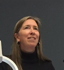 Speaking at the 2015 Spring Antioch Writers' Workshop in Yellow Springs, Ohio.